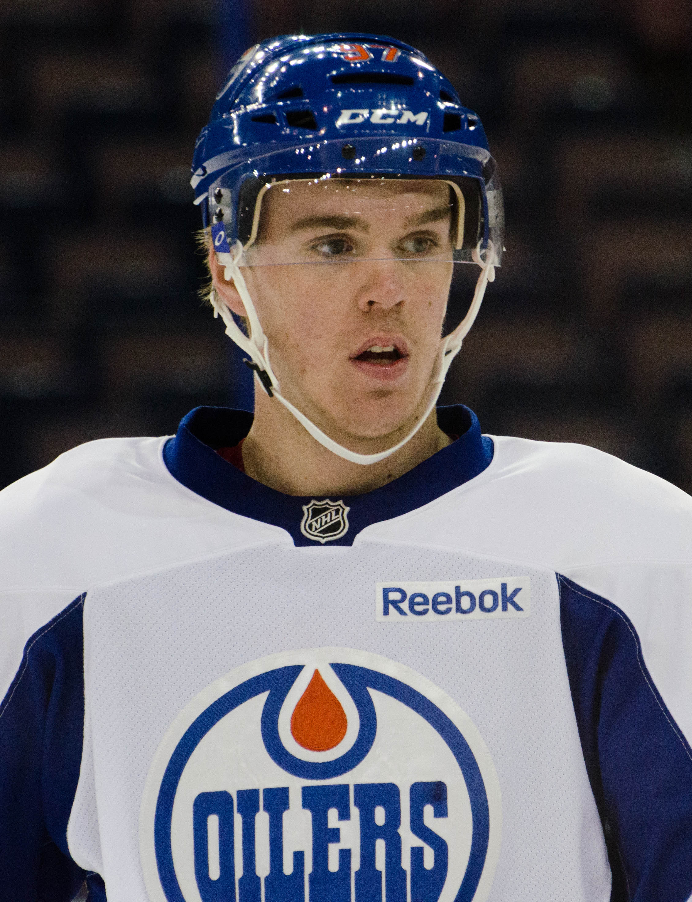 Connor McDavid at the 2015 Edmonton Oilers Development Camp, July 4, 2015. (cropped) Please credit Connor Mah if re-used elsewhere.